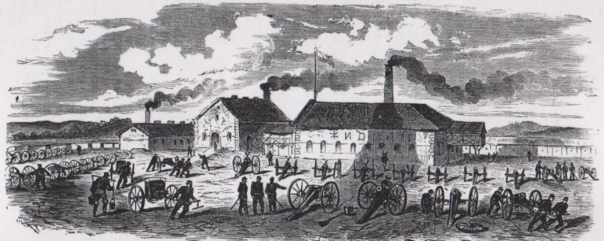 The Kragujevac Cannon Foundry in its working days, originally built in 1856.